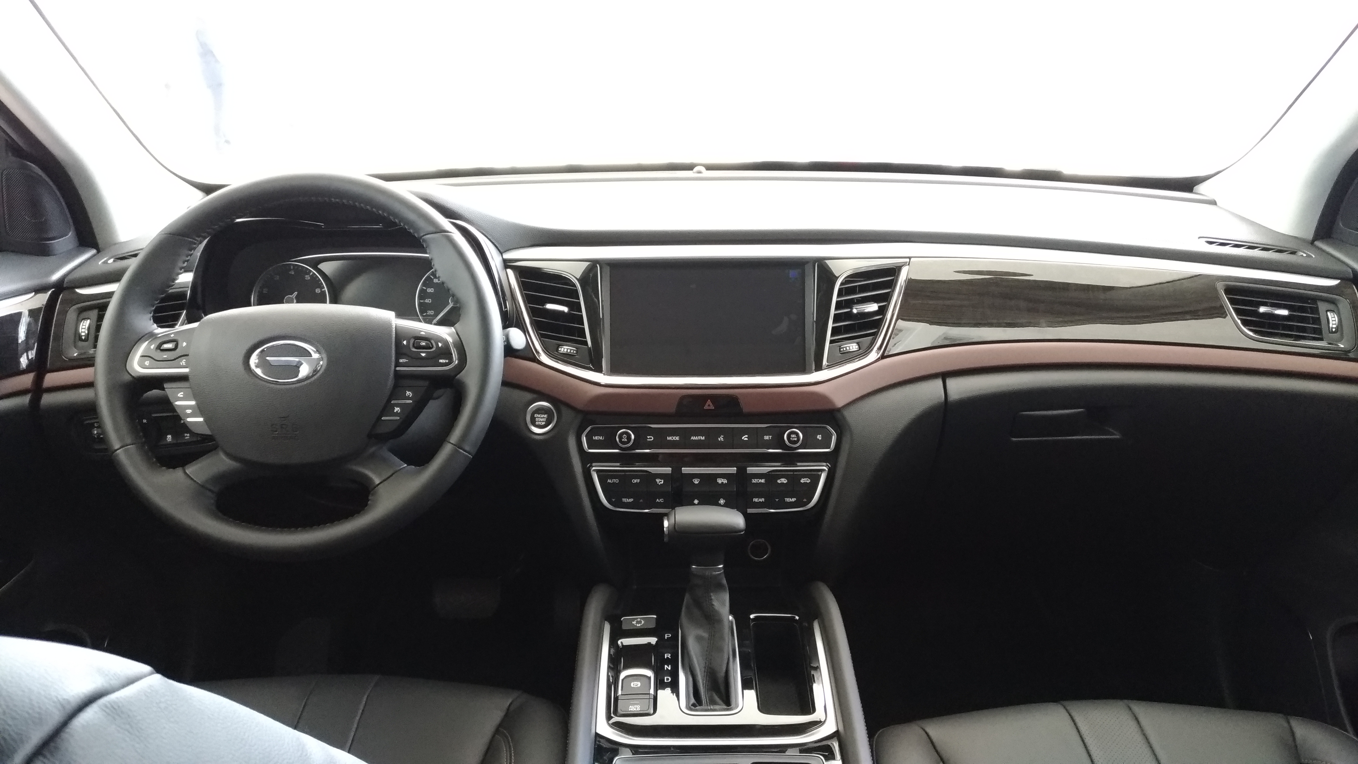 2019 GAC GS8 GE. Photographed at GAC Motor Metrowalk Pasig, Philippines.